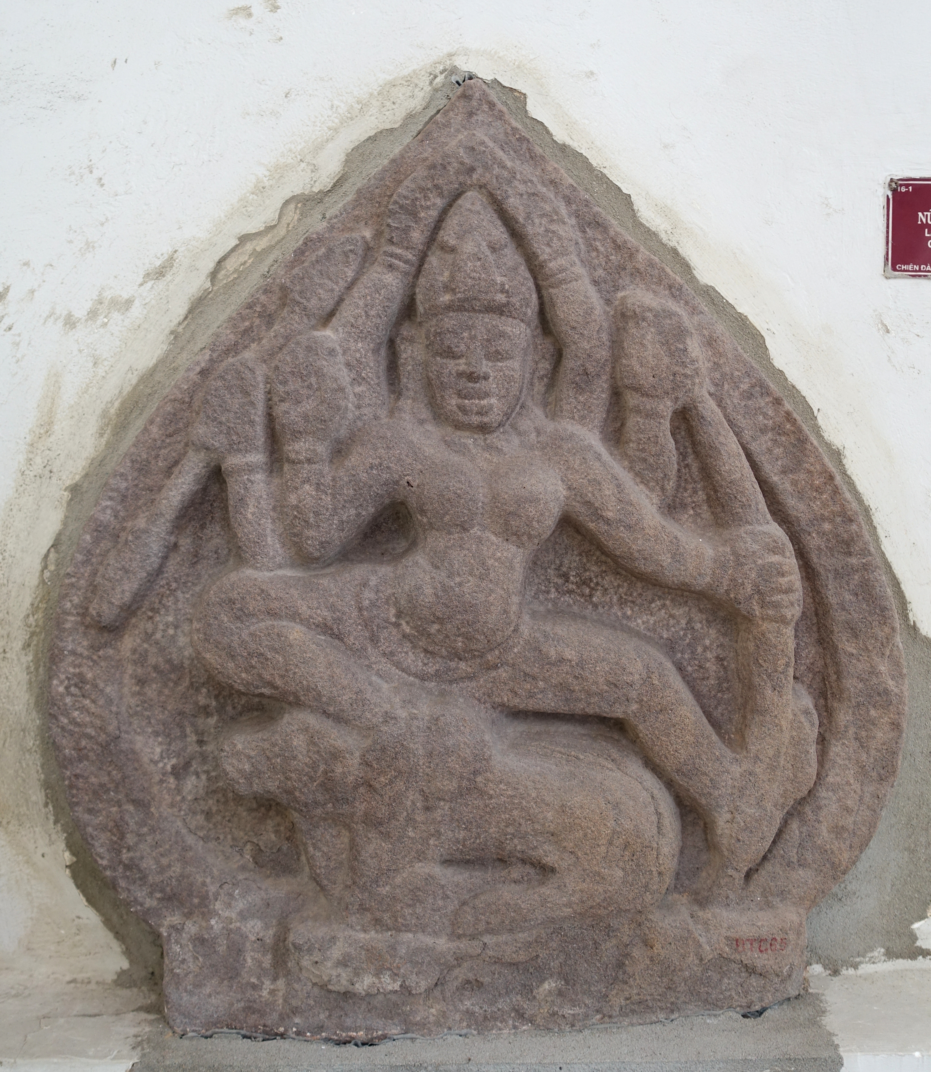 Cham sculpture at the Museum of Cham Sculpture, Da Nang, Vietnam. This artwork is in the public domain because the artist died more than 70 years ago.